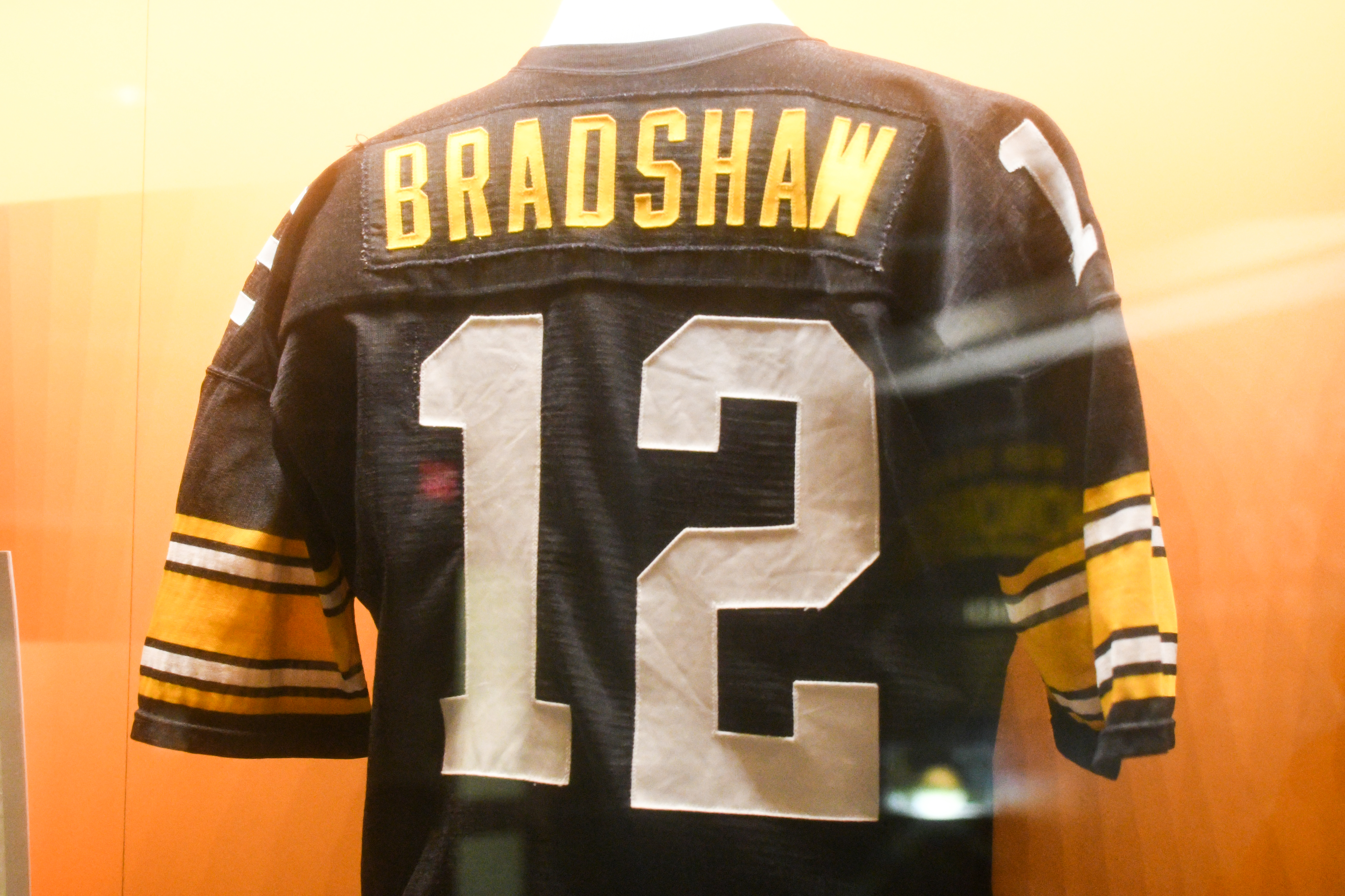 Terry Bradshaw (12, Steelers) at the Pro Football Hall of Fame